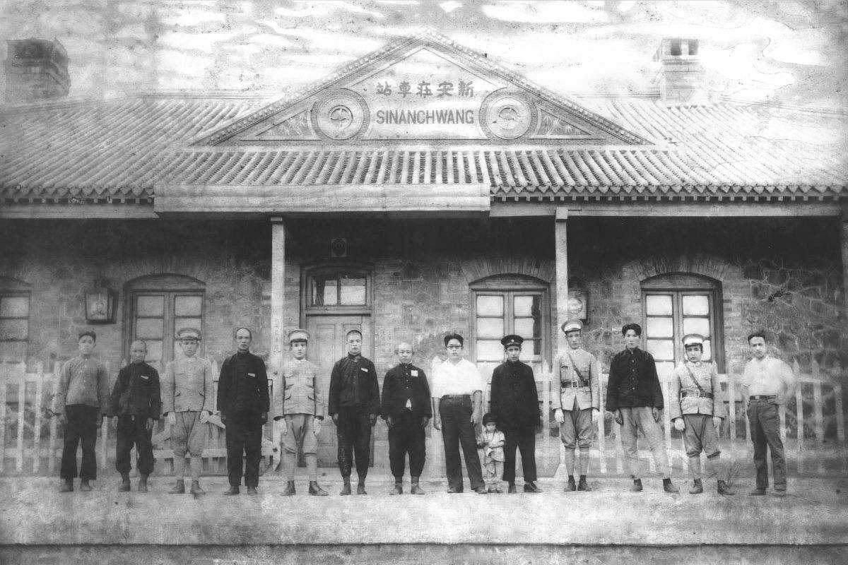 SINANCHWANG Station during Japanese Occupation